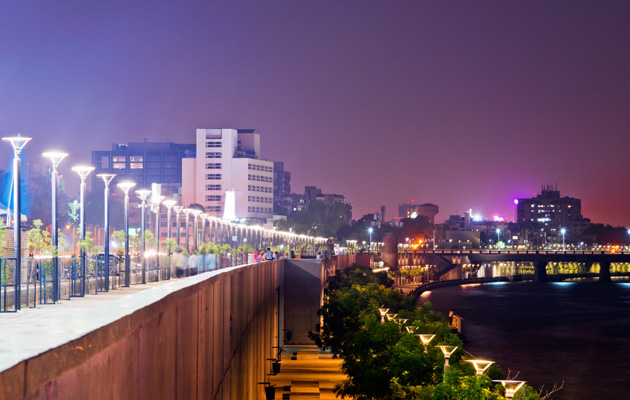 Ahmedabad